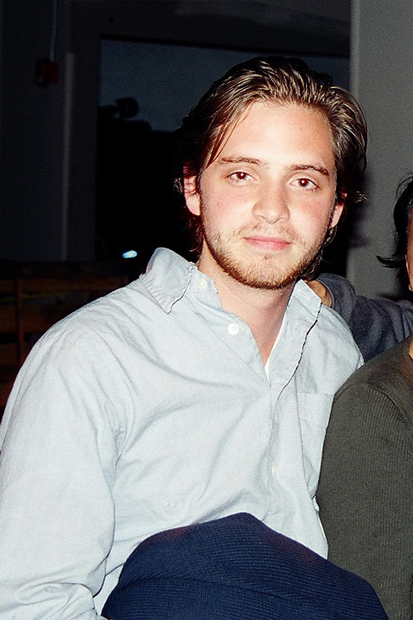 Aaron Stanford at the screening of "Tadpole" in Seattle International Film Festival 2002